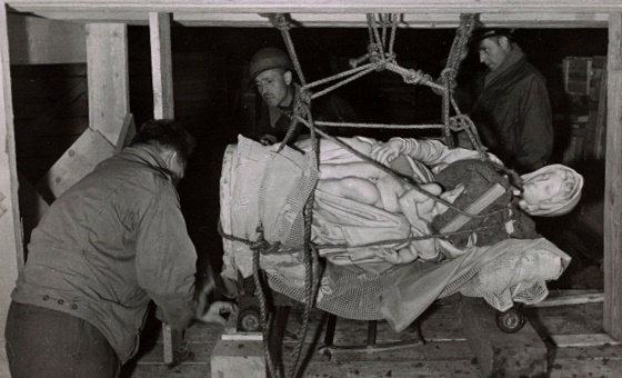 The Madonna of Bruges during recovery from the Altaussee salt mine, 1945